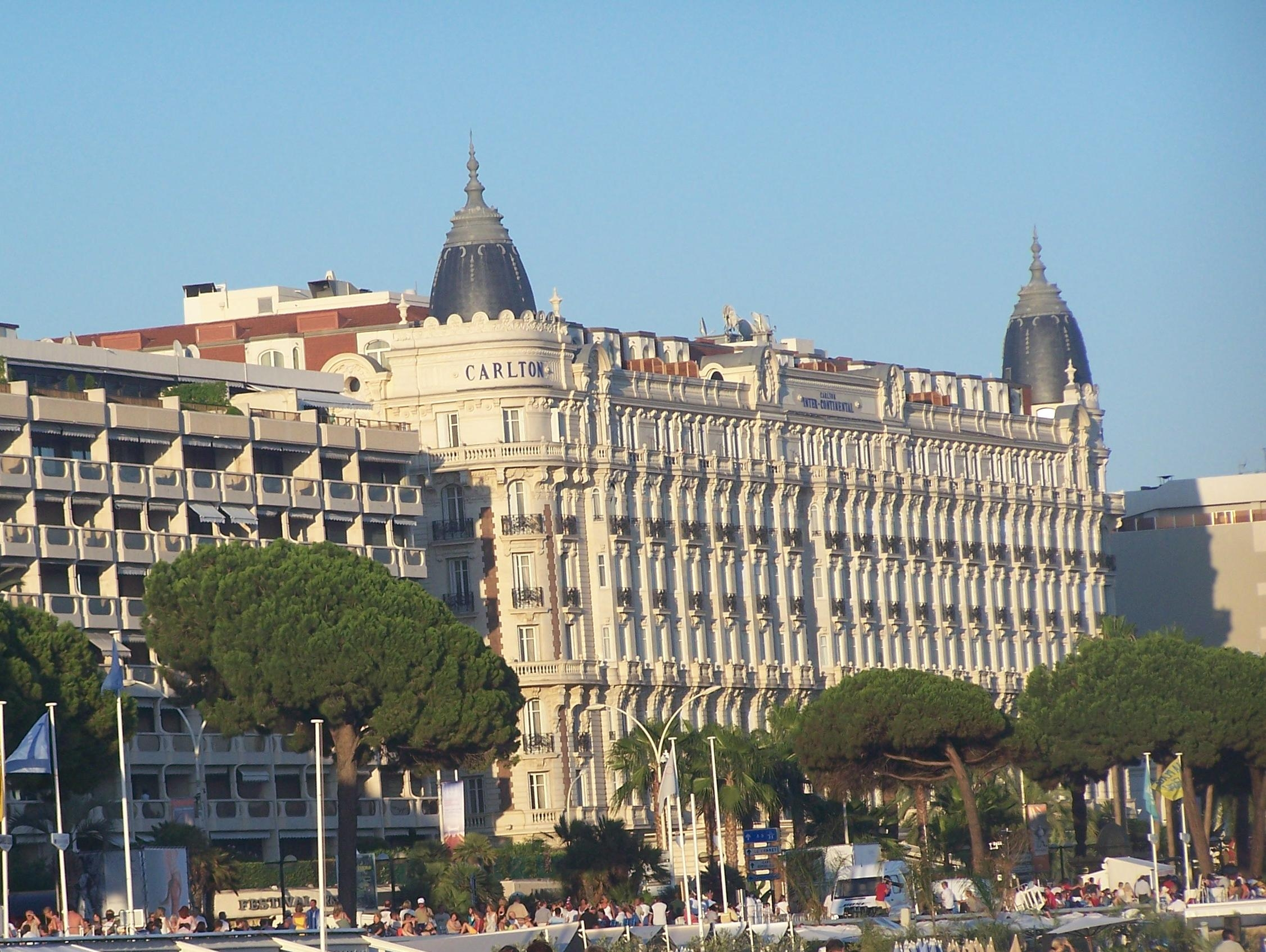 The Hôtel Carlton Intercontinental, in Cannes, France.